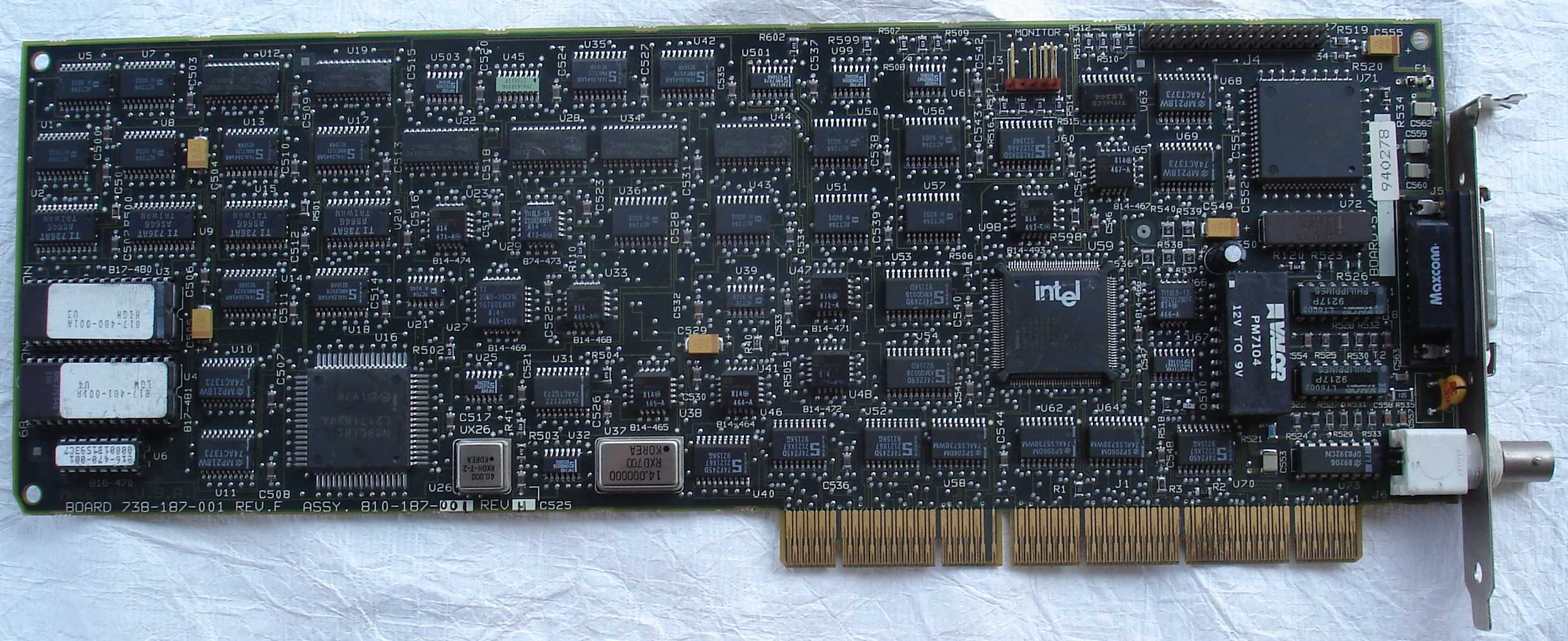 NE3200 EISA network card